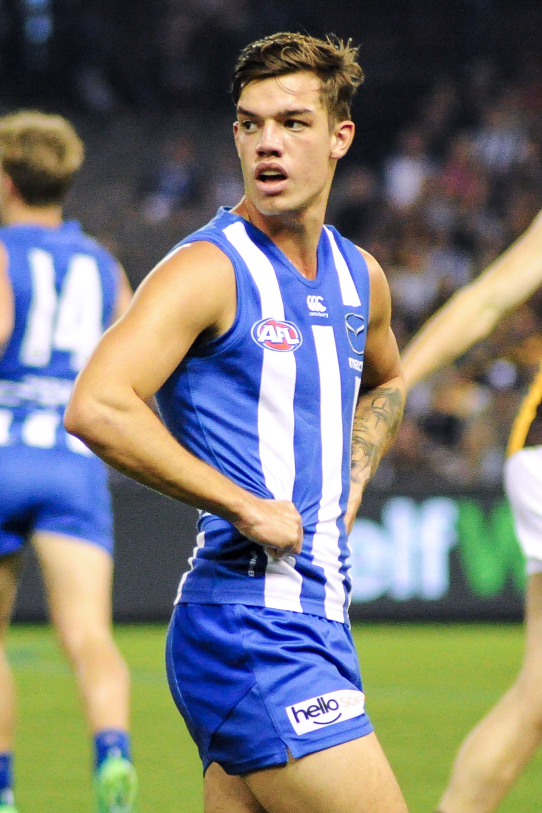 Jy Simpkin during the AFL round five match between North Melbourne and Hawthorn on Sunday, 22 April 2018 at Etihad Stadium in Melbourne, Victoria.